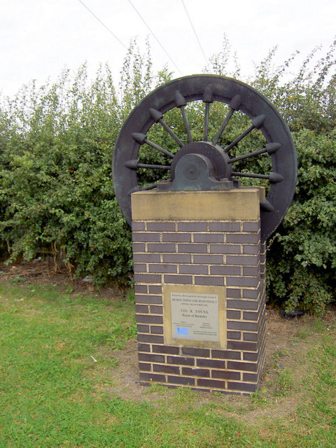 Monument to commemorate opening by Mayor of Barnsley the Dearne Valley Parkway.